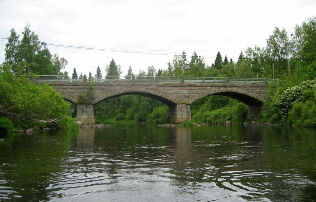 Soikka bridge in Veneskoski, Kankaanpää, Finland. The bridge is a three-arch stone bridge, built in 1918.